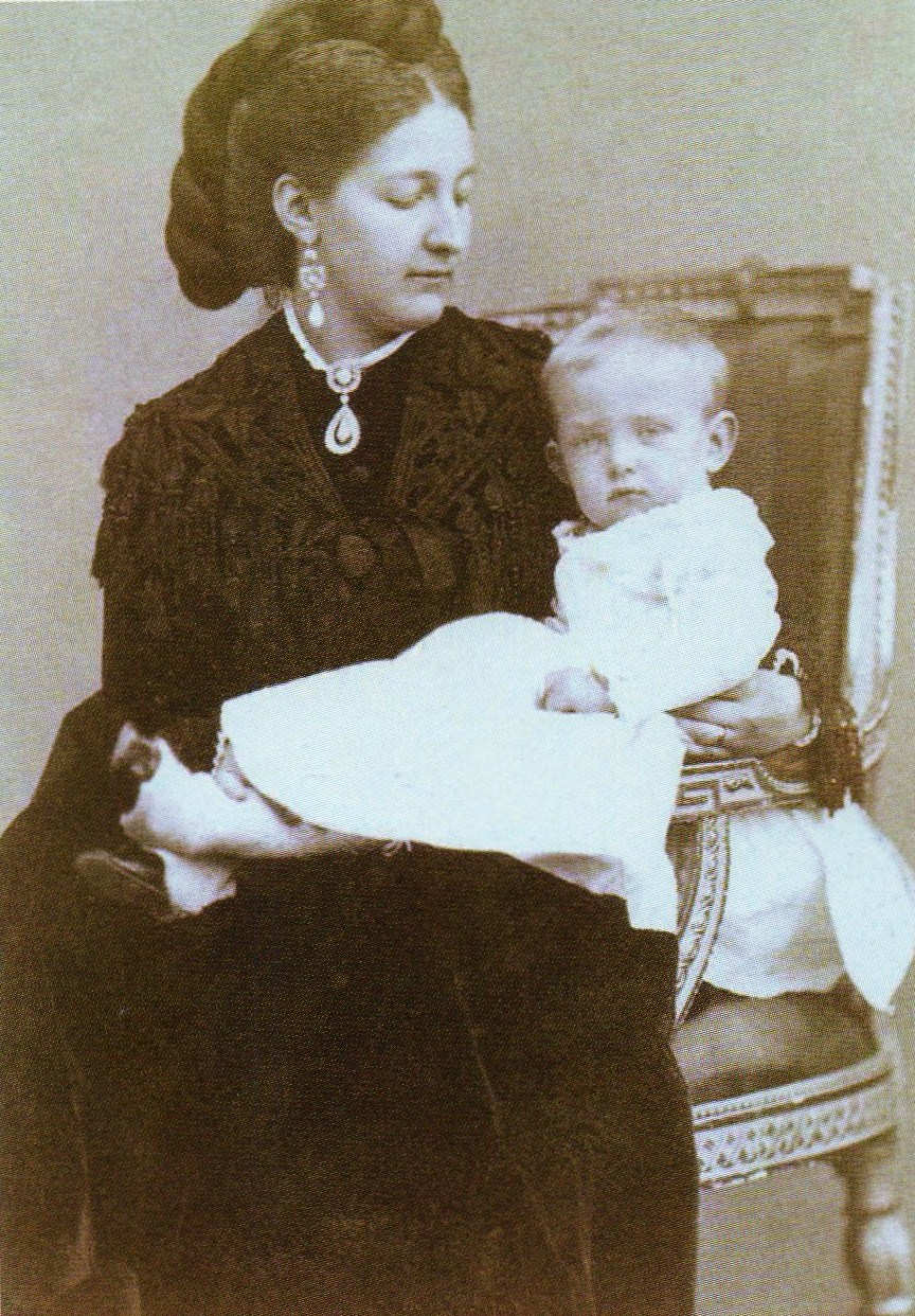 Emanuele Filiberto of Savoy with his mother.